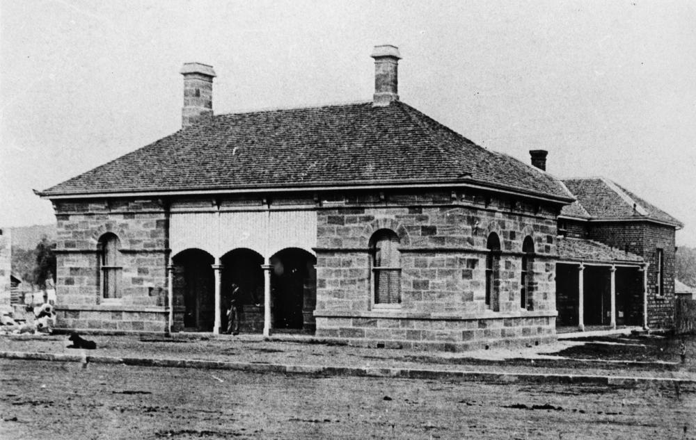 This is the first Lands Office in Warwick. To assist the settlement of the Darling Downs, the first headquarters of the Commissioner of Crown Lands was established in 1843 at the foot of the hill opposite the site where the Cambooya railway station was later built. The Commissioner, Christopher Rolleston, made the recommendation for the site of a town to be called Canning Town, however, people living in the area objected to this name and at their suggestion the name was changed by the Government to Warwick. The first land sales were made in 1850. (Description supplied with photogtraph.)